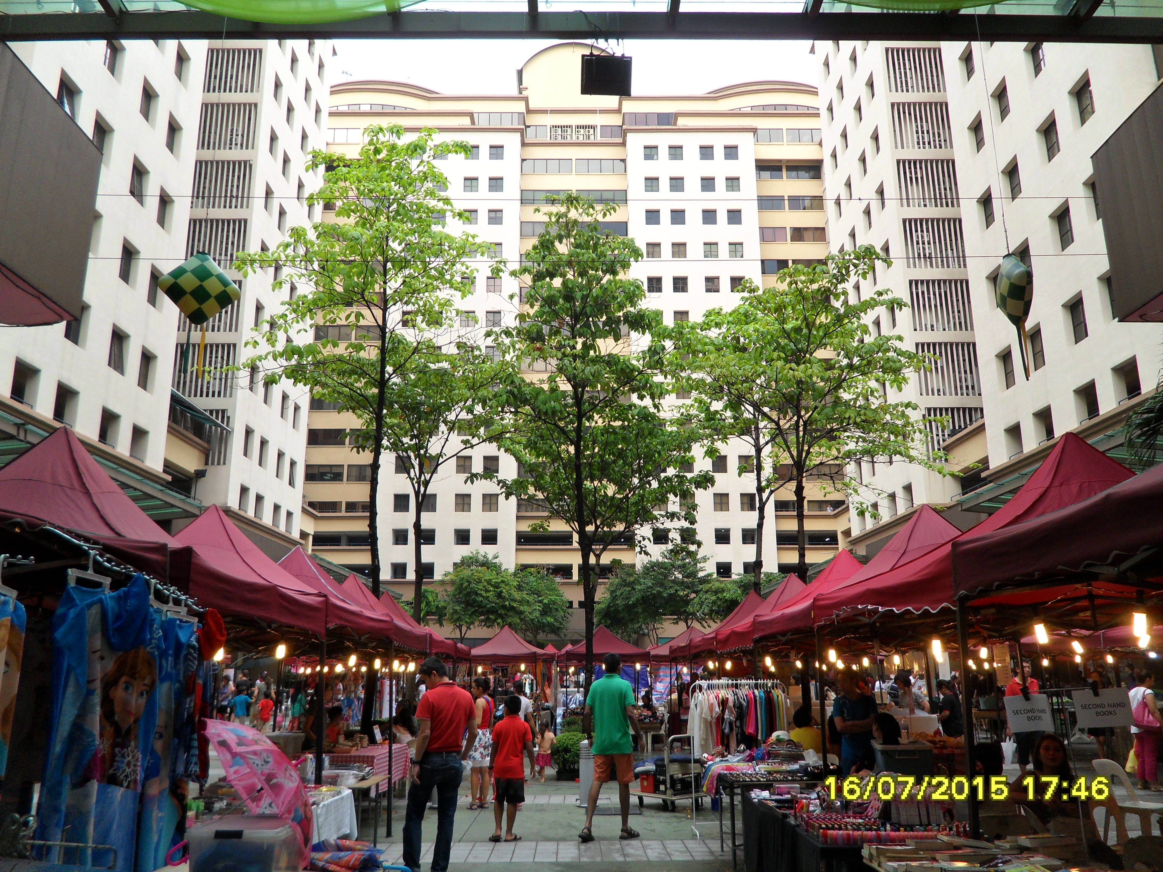 Thursday bazaar at Plaza Mont Kiara, Kuala Lumpur